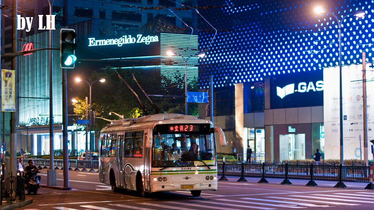 A Shanghai trolleybus operating route 23 on Mid-Jinling Rd. at South Huangpi Rd.